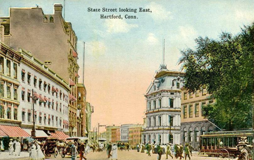 State Street looking east, Hartford, Connecticut; from a postmarked 1914 postcard with no publisher printed. It was offered for auction on eBay. Because it was published before 1923, it is exempt from copyright in the United States